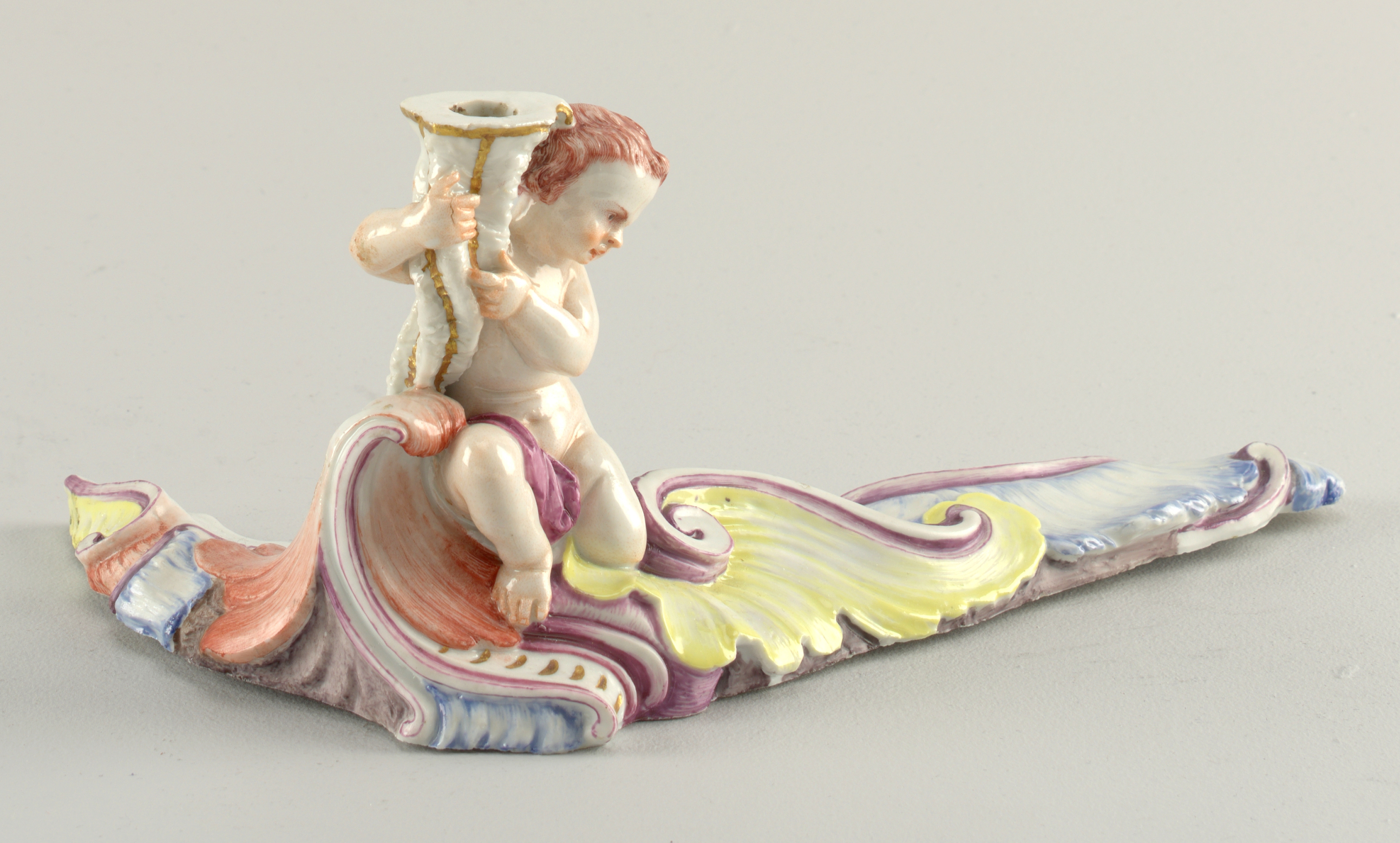 A table centerpiece formed in four sections as flowing rococo scrollwork shaded in tones of iron-red, puce, yellow, blue and green. Partially draped figures in various stances each holding a taperstick in the form of an elongated white cornucopia banded in gilding.